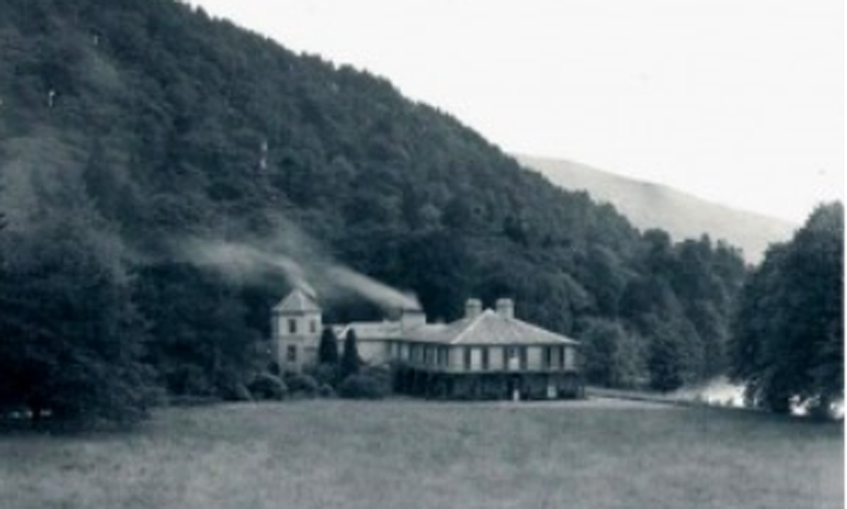 An early photograph of Glenridding House, Ullswater